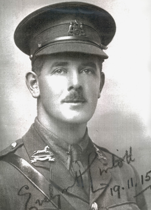 Photograph of Evelyn Lintott in British Army uniform, taken during the First World War. All attempts to find the identity of the photographer have failed. This images appears on numerous sites, none with any mention of the identity of the photographer.